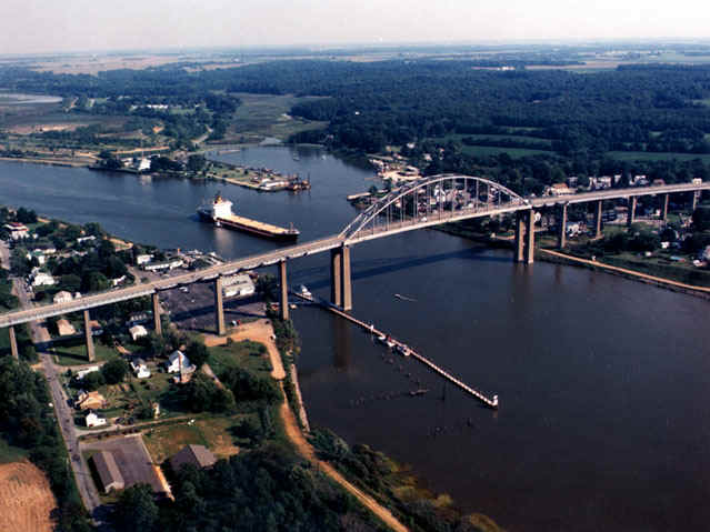 Chesapeake City Bridge crossing the Chesapeake & Delaware Canal at Chesapeake City, Maryland. Taken from